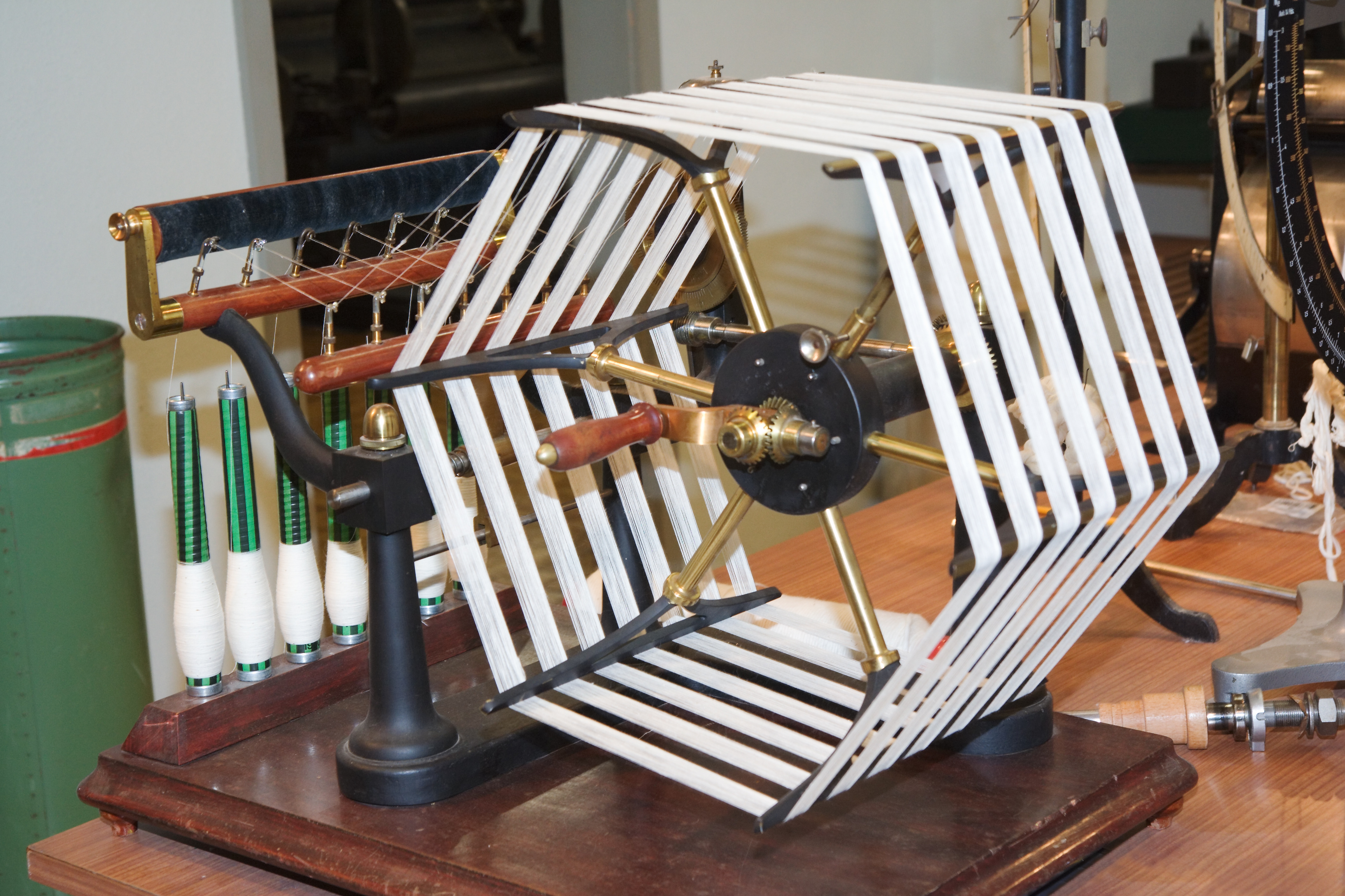 Lab reel